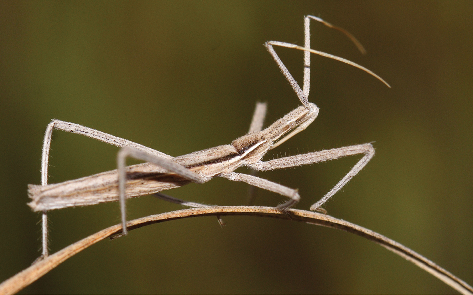 Vibertiola cinerea Horváth, 1909 (Reduviidae, Harpactorinae). Photo JM Sesma. Determination L. Vivas.